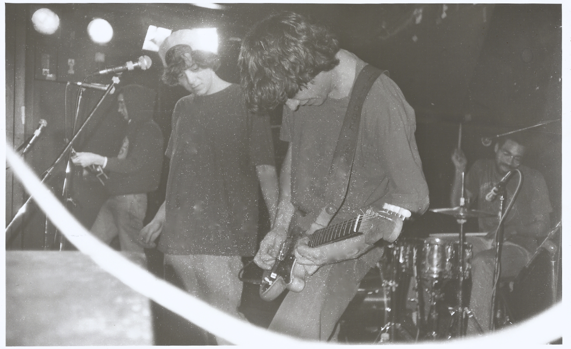 Ween (1993).jpg, the Charlotte, Leicester 1993 More from the Charlotte 1991-96. Neate photos facebook page. More neate photos.